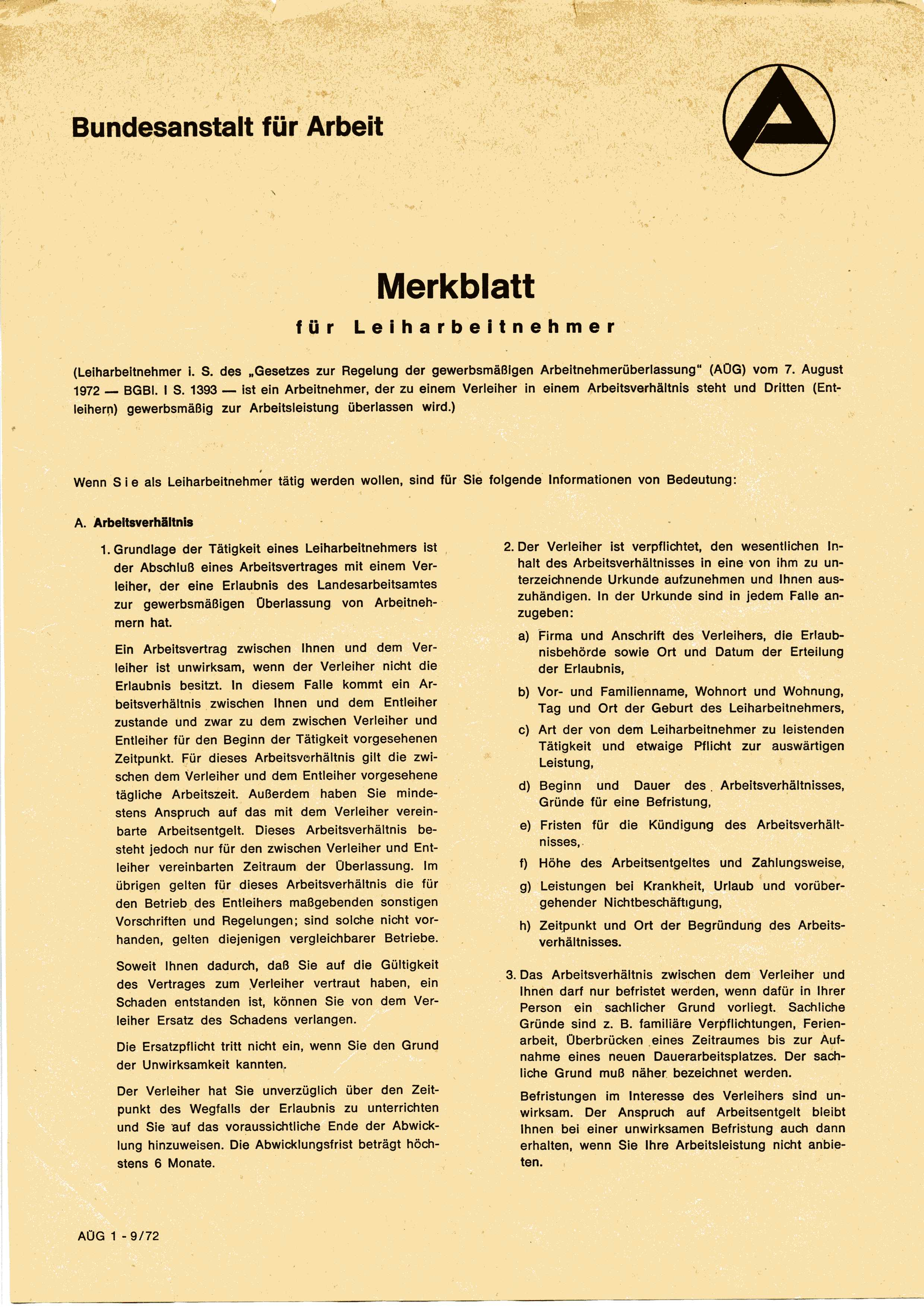 Page 1 of instruction sheet which a "worker lending agency" had to hand out to the worker to be lended to a borrower upon concluding the work contract, according to the 1972 West-German law on worker lend-lease